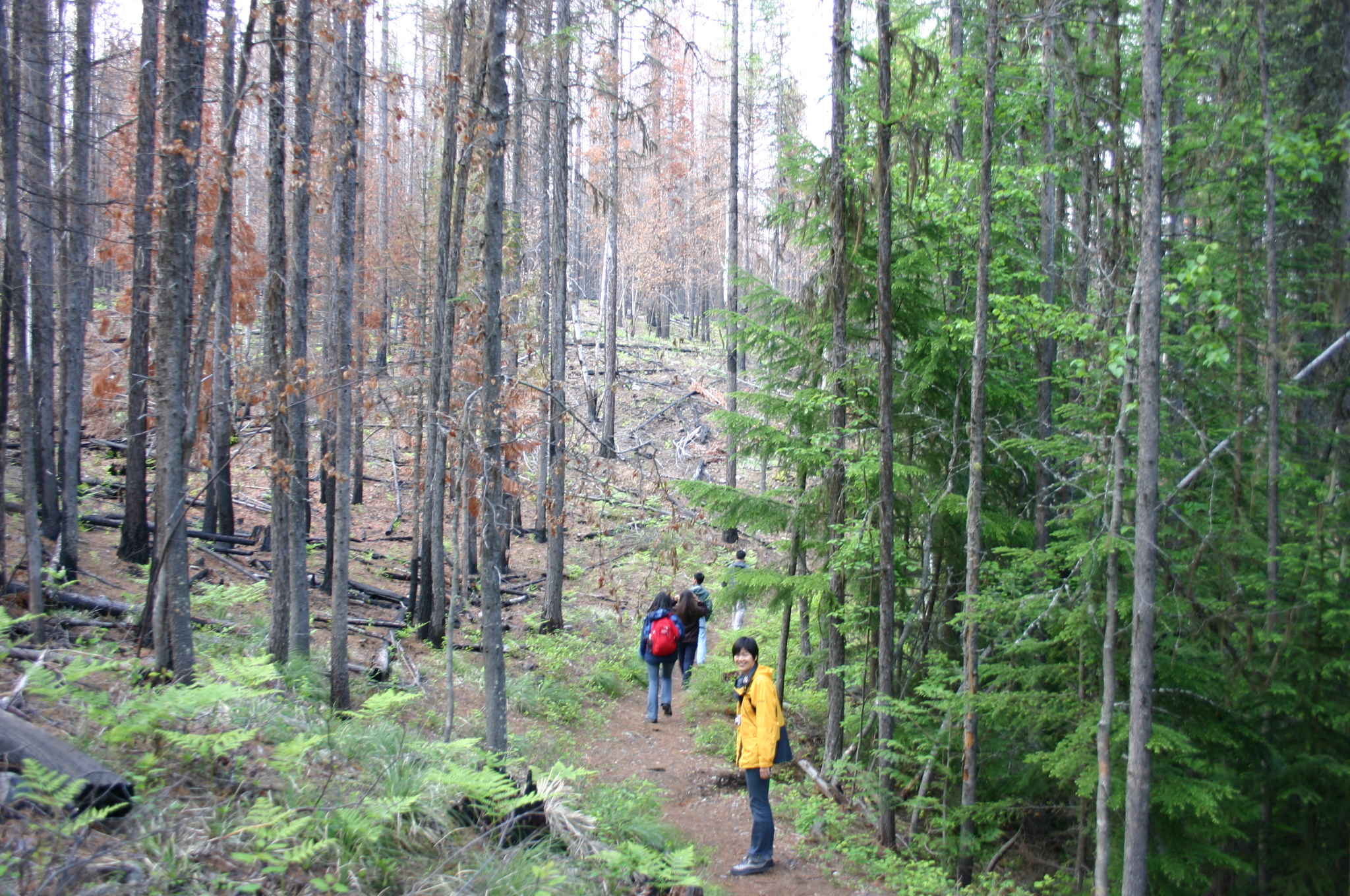 This portion of Rocky Point trail served as a natural firebreak for a forest fire in summer 2003.